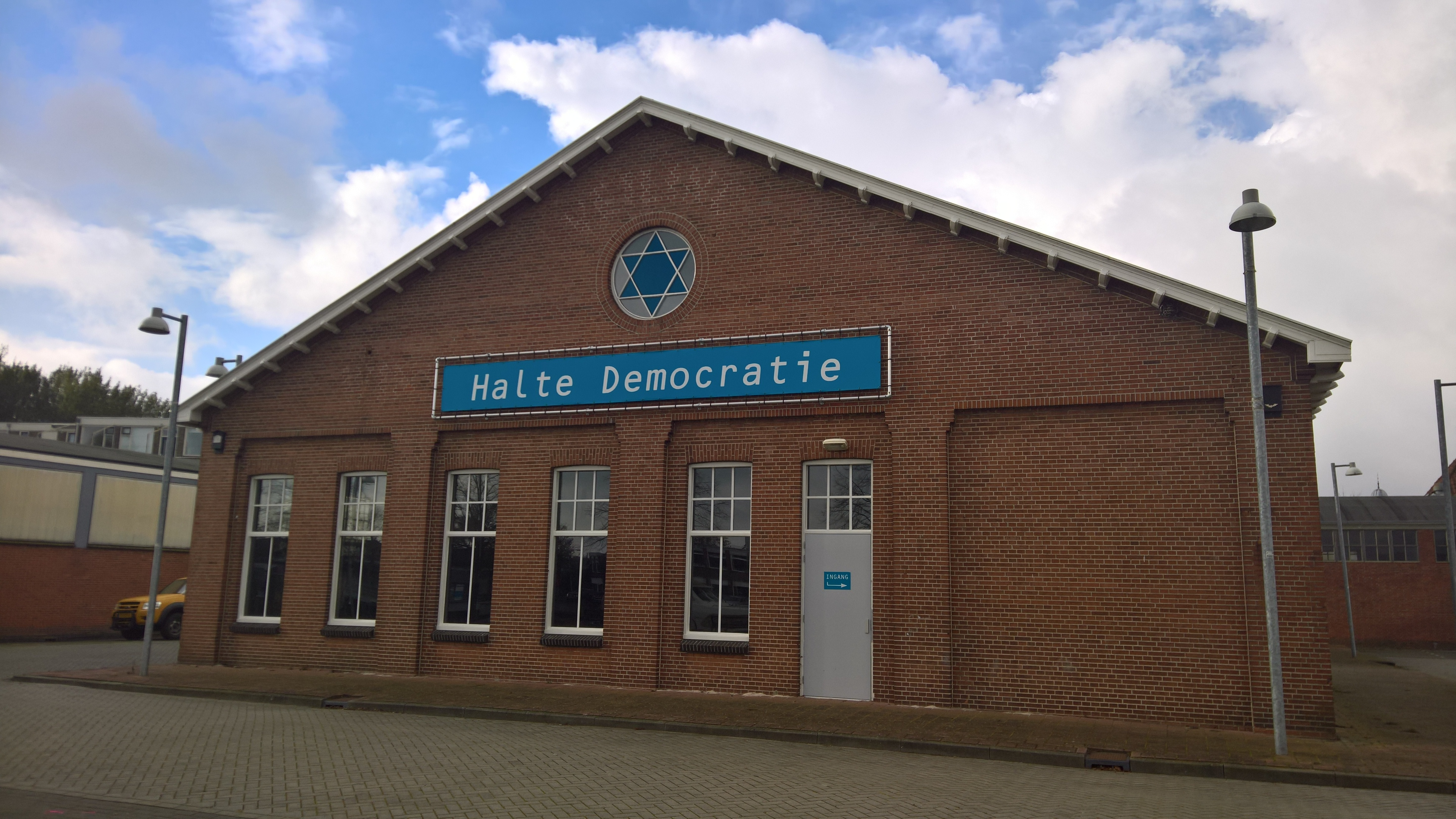 A public art exposition, and social gathering building in the city 🏙 of Winschoten, Groningen.